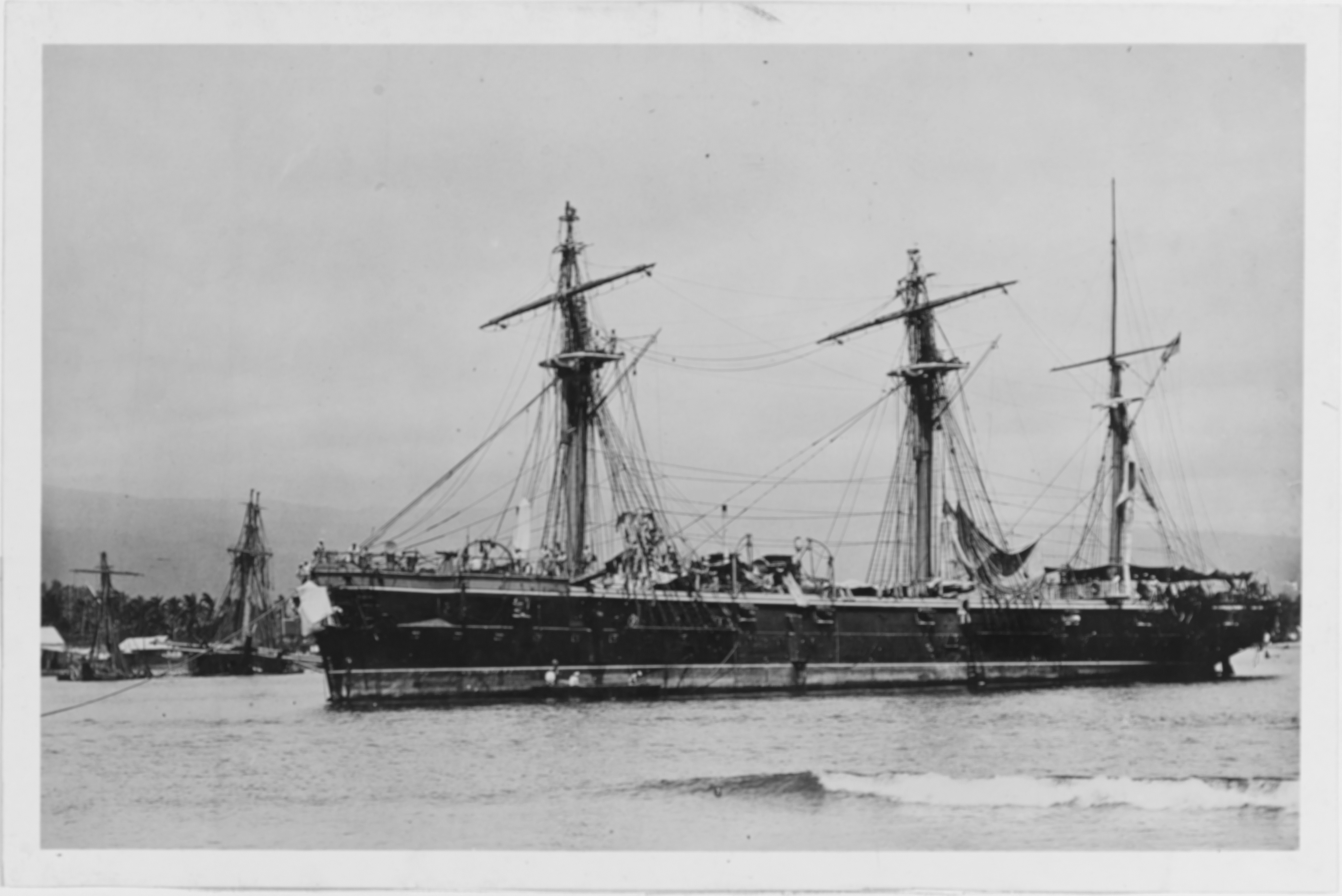 Beached on the eastern side of Apia Harbor, Upolu, Samoa, soon after the storm. View looks to the southwestward, with the wrecks of USS Trenton and USS Vandalia in the left background. Note Olga's damaged bow. Her funnels and fore and main topmasts are in lowered positions.